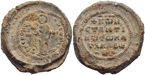 BYZANTINE. Constantine Katakalon. 11th century. PB Seal (27mm, 25.71 g, 11h). Christ standing facing / +KωNCTANTINω Tω KATAKAΛω. BLS I-; BLS II -; DOCBS -. Good VF.